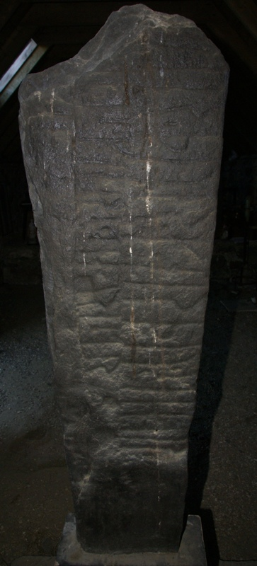 Cille Bharra, Barra, Outer Hebrides, Scotland - Kilbar Stone (replica) in northern chapel